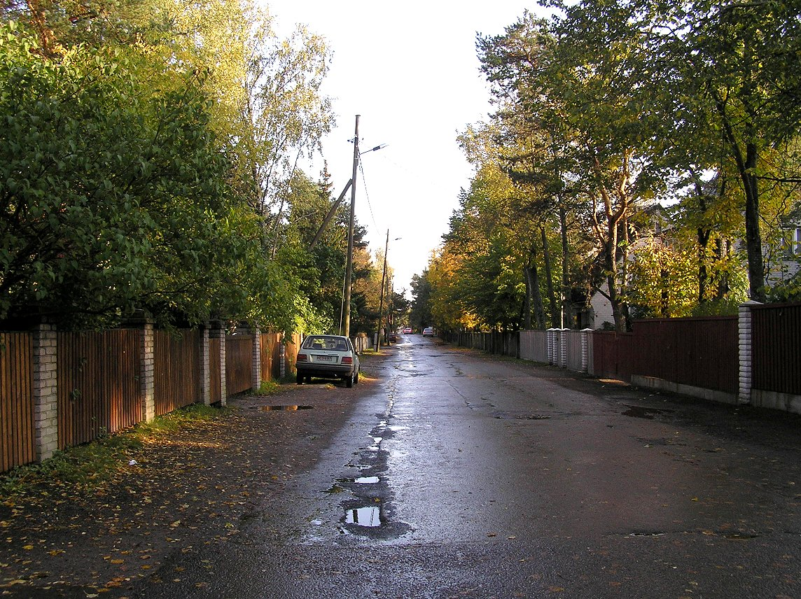 Sulevi Street in Tallinn